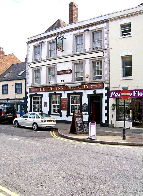 The Pig Inn the City, 121 Westgate Street This popular public house is one of the few in the City of Gloucester to offer regular live music.